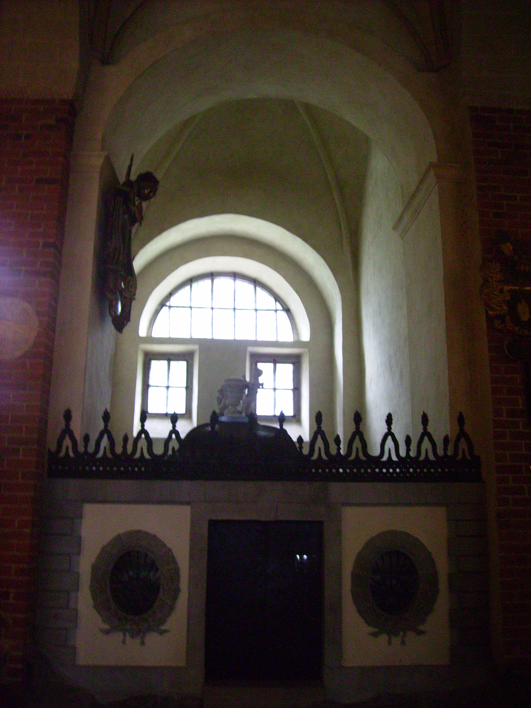 Picture of Cedercrantzka gravkoret in Strängnäs domkyrka